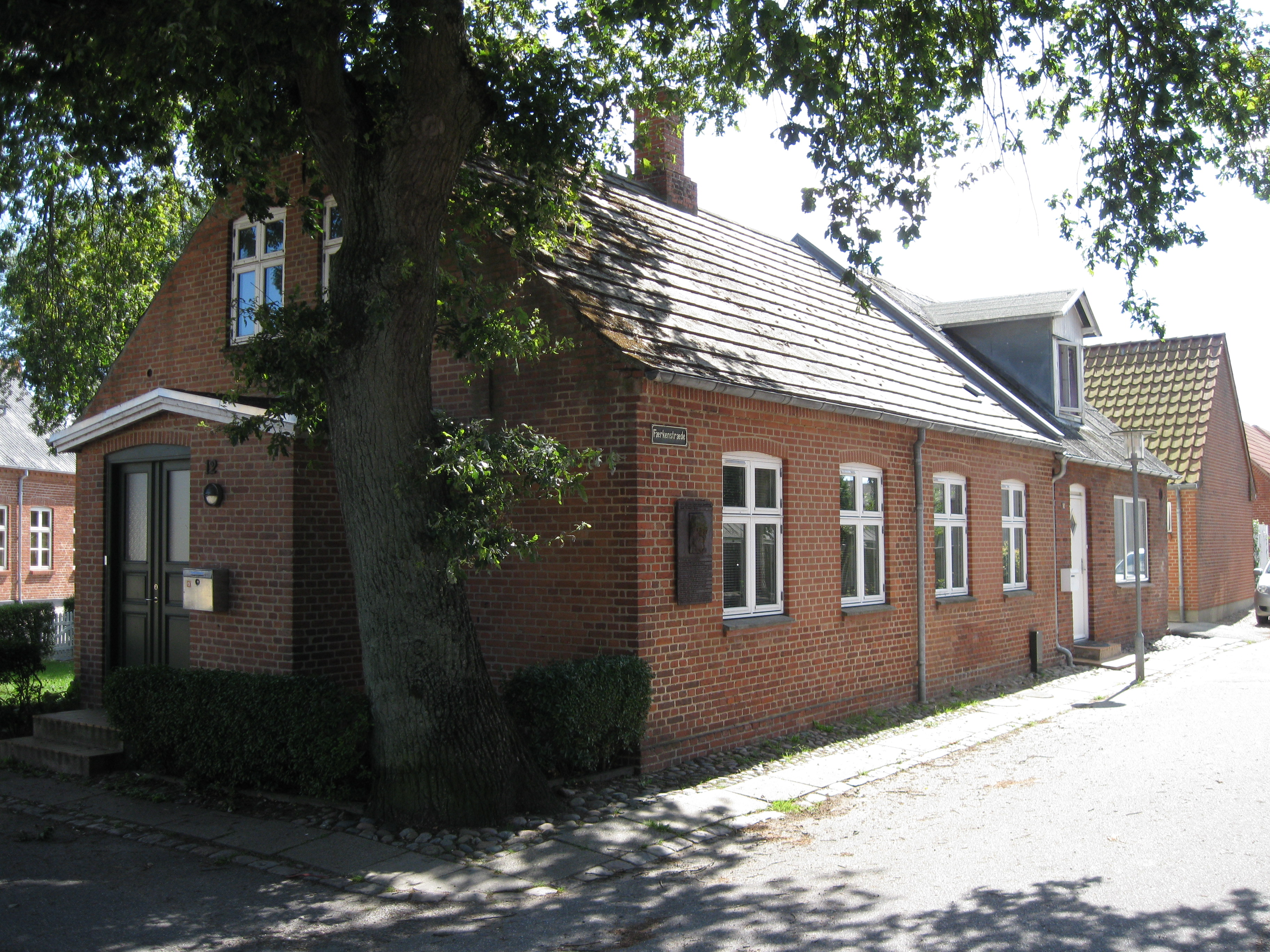 Birthplace of the danish-norwegian writer Aksel Sandemose in Nykøbing Mors, Denmark